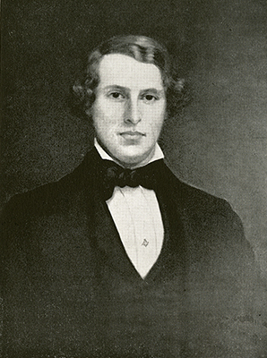 Portrait by Browne, William Garl(?), circa 1845. "Richard Spaight Donnell." North Carolina Portrait Index, 1700-1860.